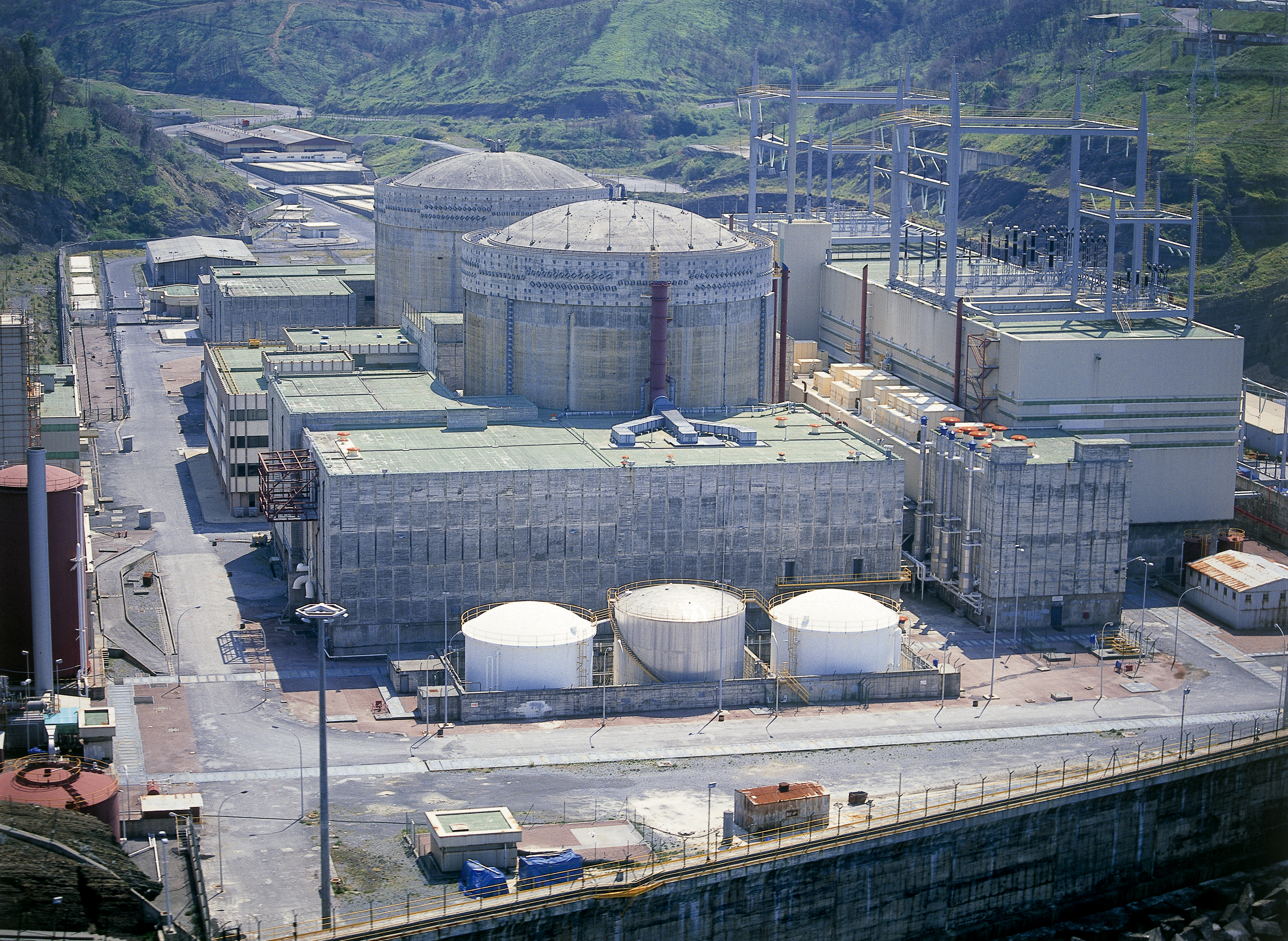 Lemoiz nuclear power plant